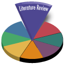 Literature Review icon in shape of a pie chart. color